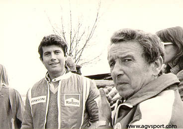 Gino Amisano and Giacomo Agostini